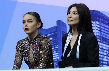 Kailani Craine and Tiffany Chin at the 2016 World Championships